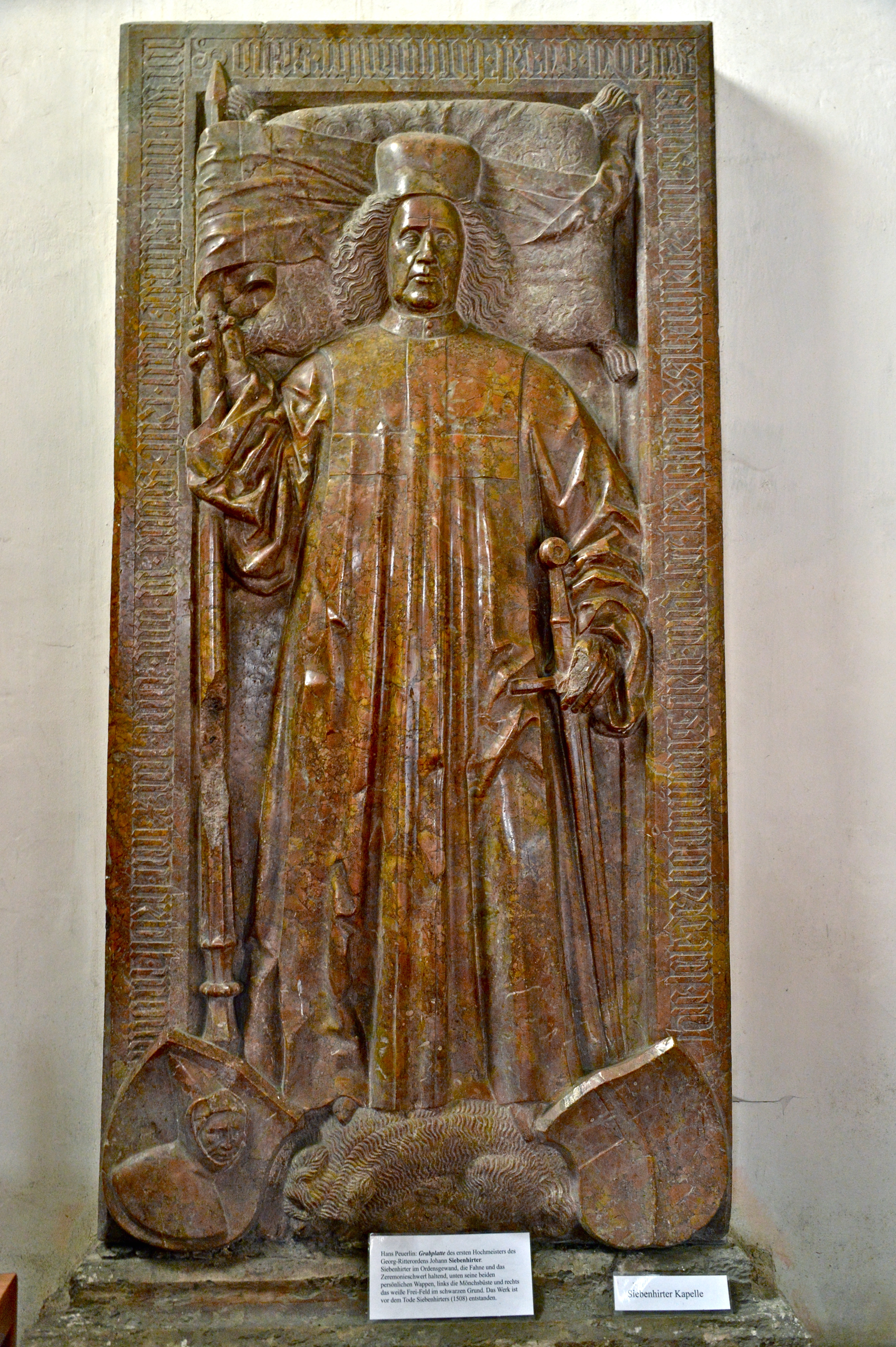 Gravestone of Johann Siebenhirter at the Siebenhirter chapel in the parish church Saint Salvator and All Hallows, market town Millstatt, district Spittal an der Drau, Carinthia / Austria / EU